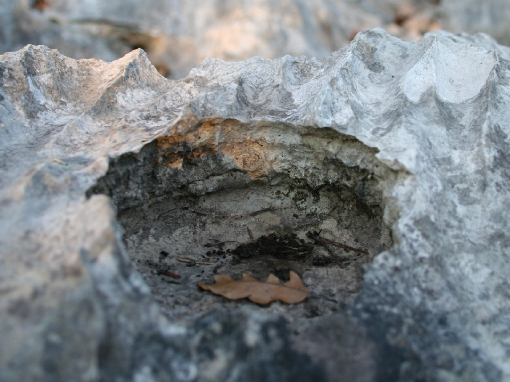 Škavnica, the typical karst surface form; picture taken in Kras region in Slovenia.